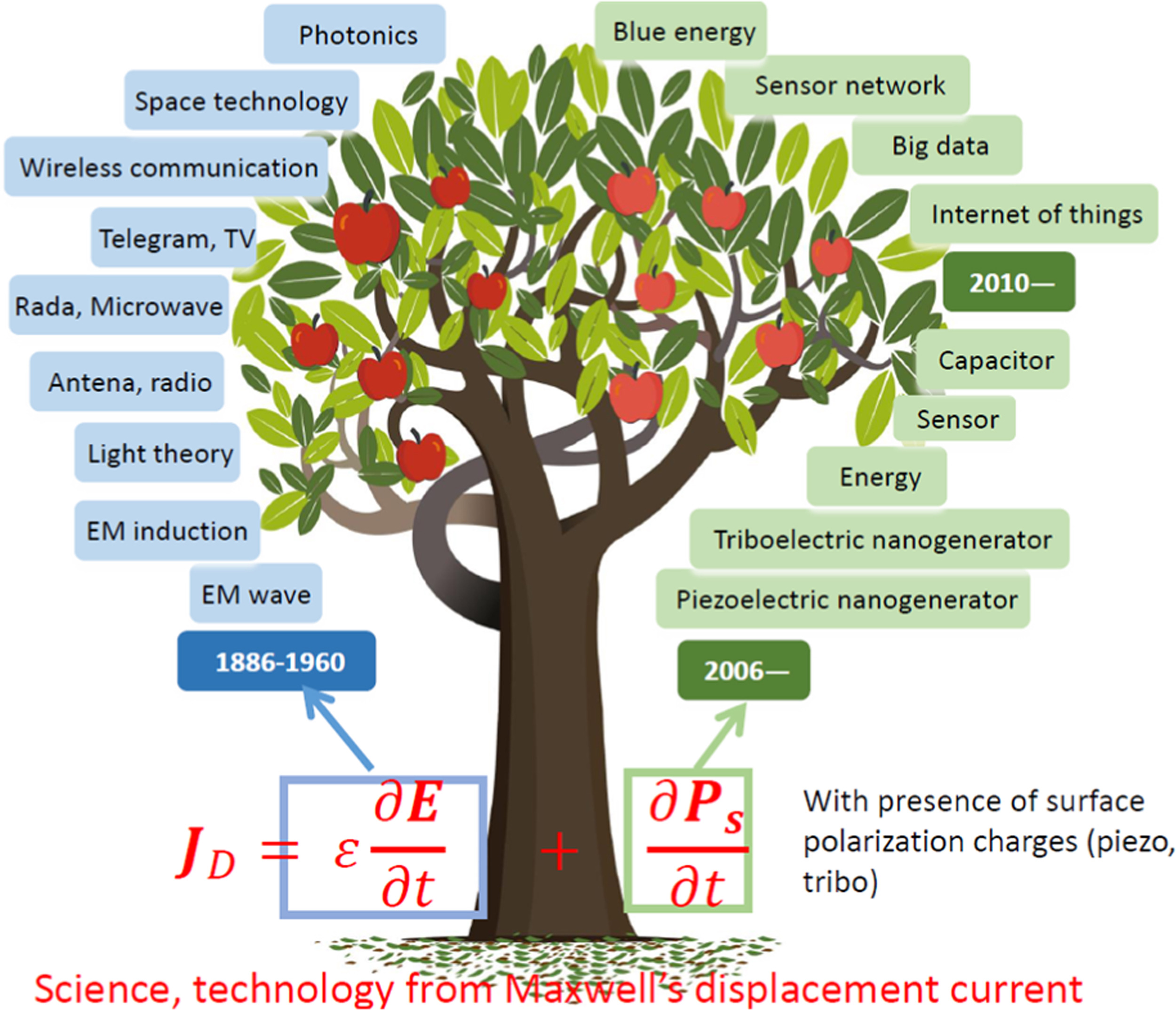 The left-hand side is the derived electromagnetic wave theory that has impacted the development of the world in the last century in communication; the right-hand side is the new technologies derived from displacement current for energy and sensors that are likely to impact the world for the future.